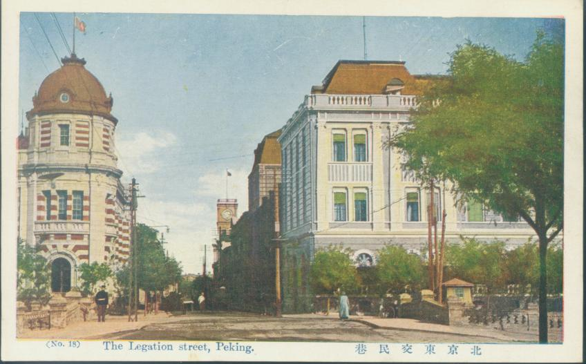 Postcard showing Legation Street, Peking. The building on the left, which housed the Yokohama Specie Bank, is still standing. On the right stood the Grand Hôtel des Wagons-Lits, also known as the Six Nations Hotel.